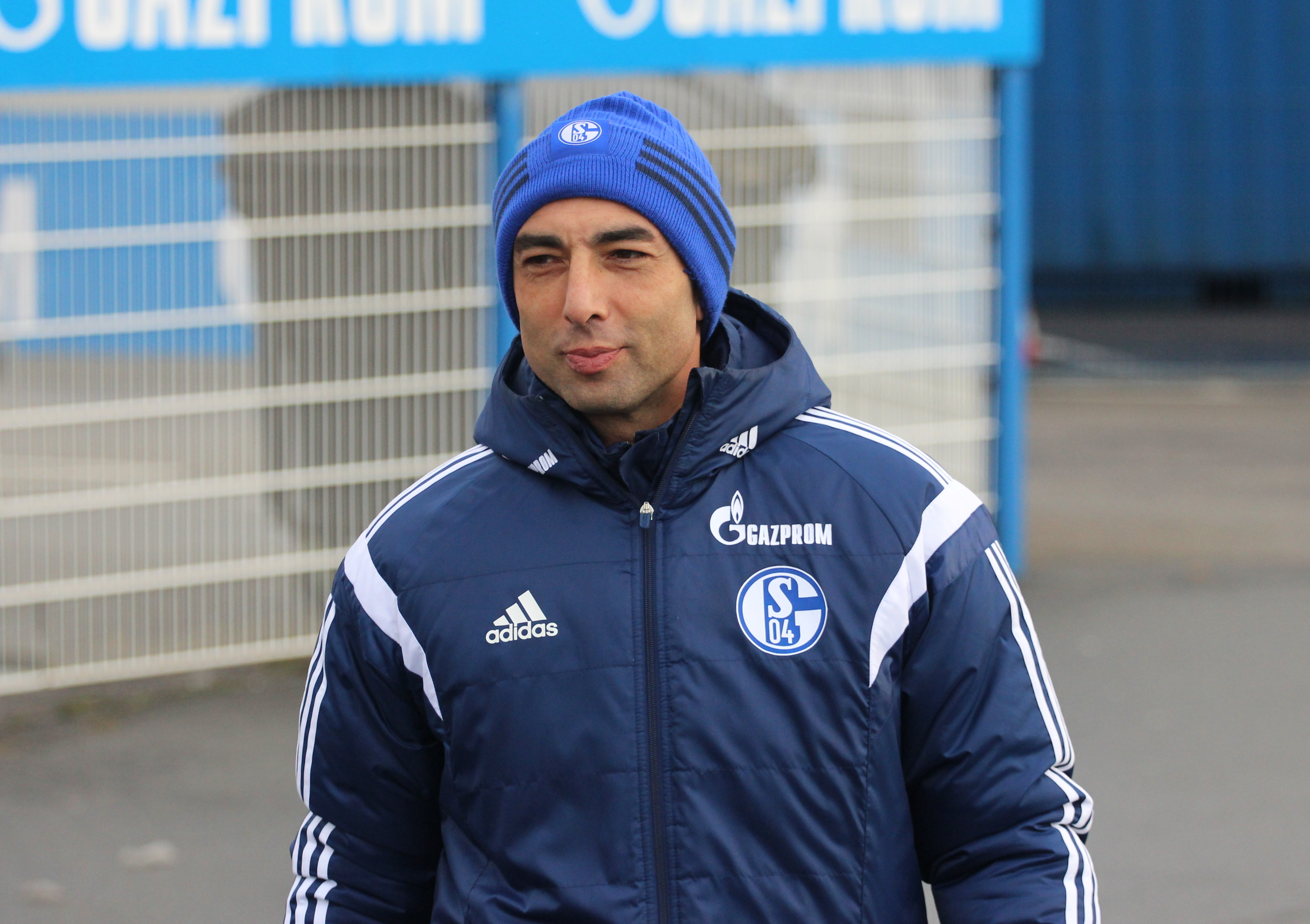 Roberto Di Matteo in training with FC Schalke 04